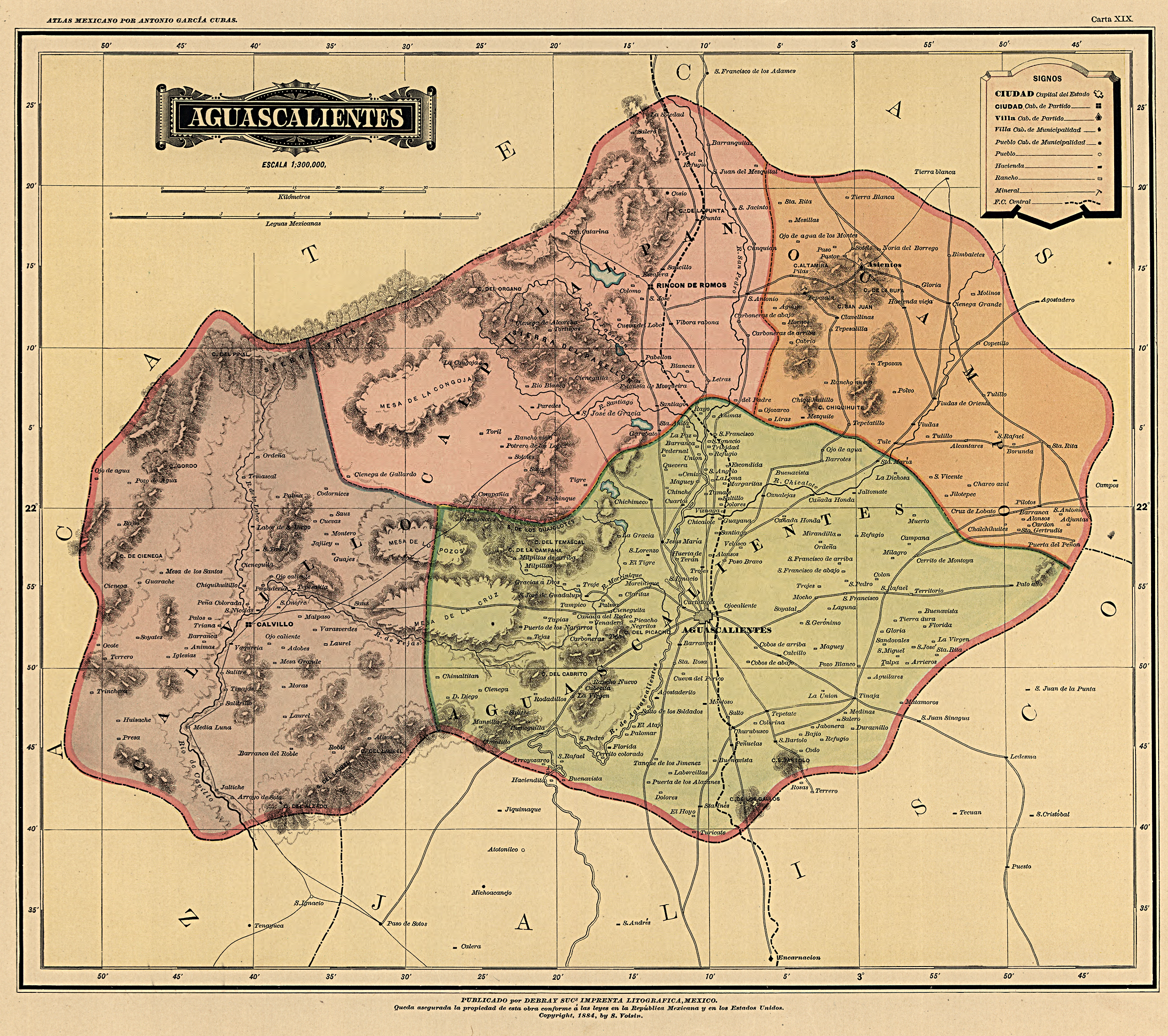 Chart XIX, map of the state of Aguascalientes from the mexican Atlas of Antonio García Cubas, scale 1:300000, created in 1884